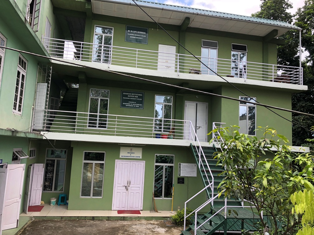 Pachhunga University Research Centre.